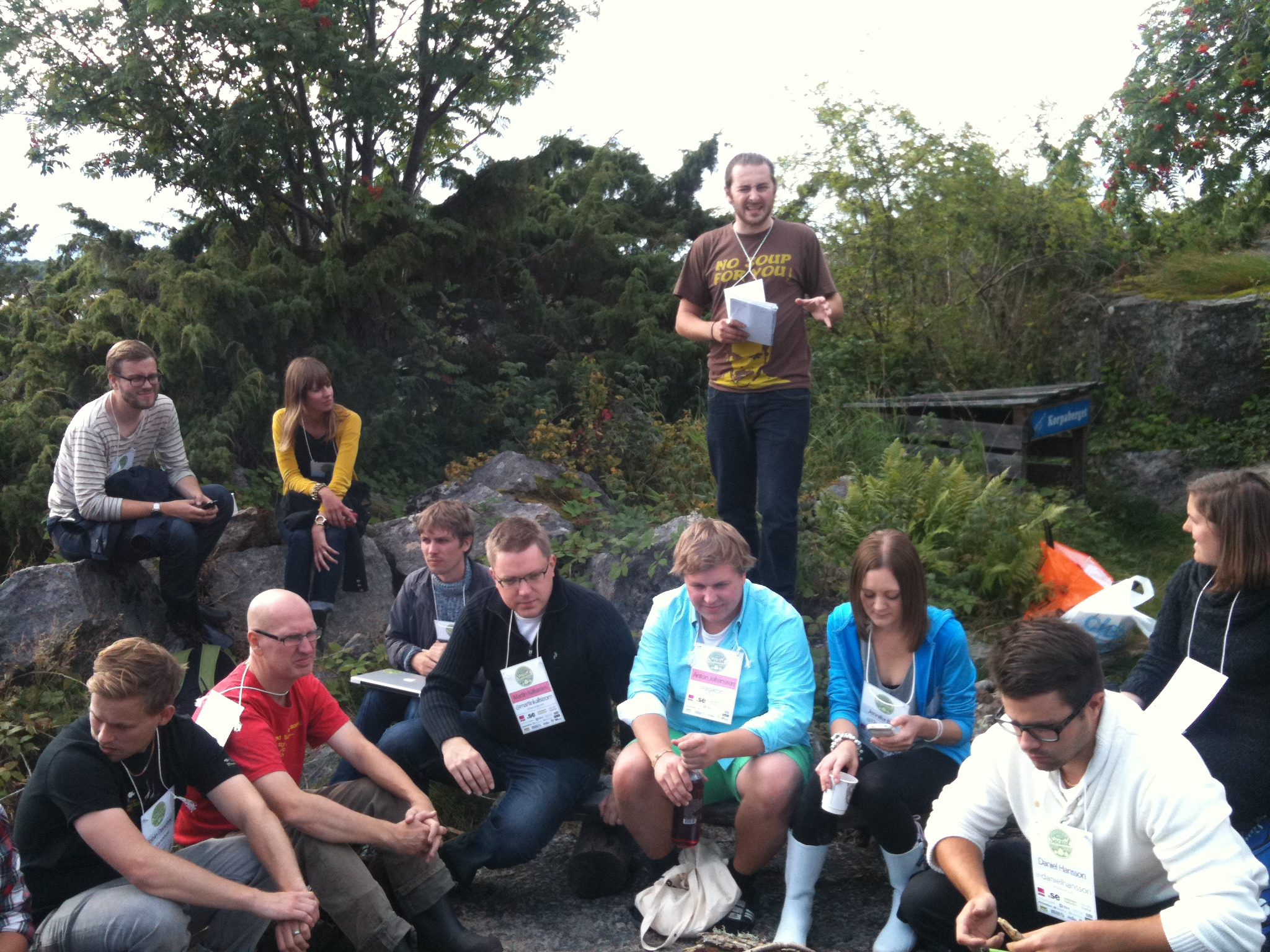 A workshop at the Sweden Social Web Camp 2011 conference titled “Save the world”